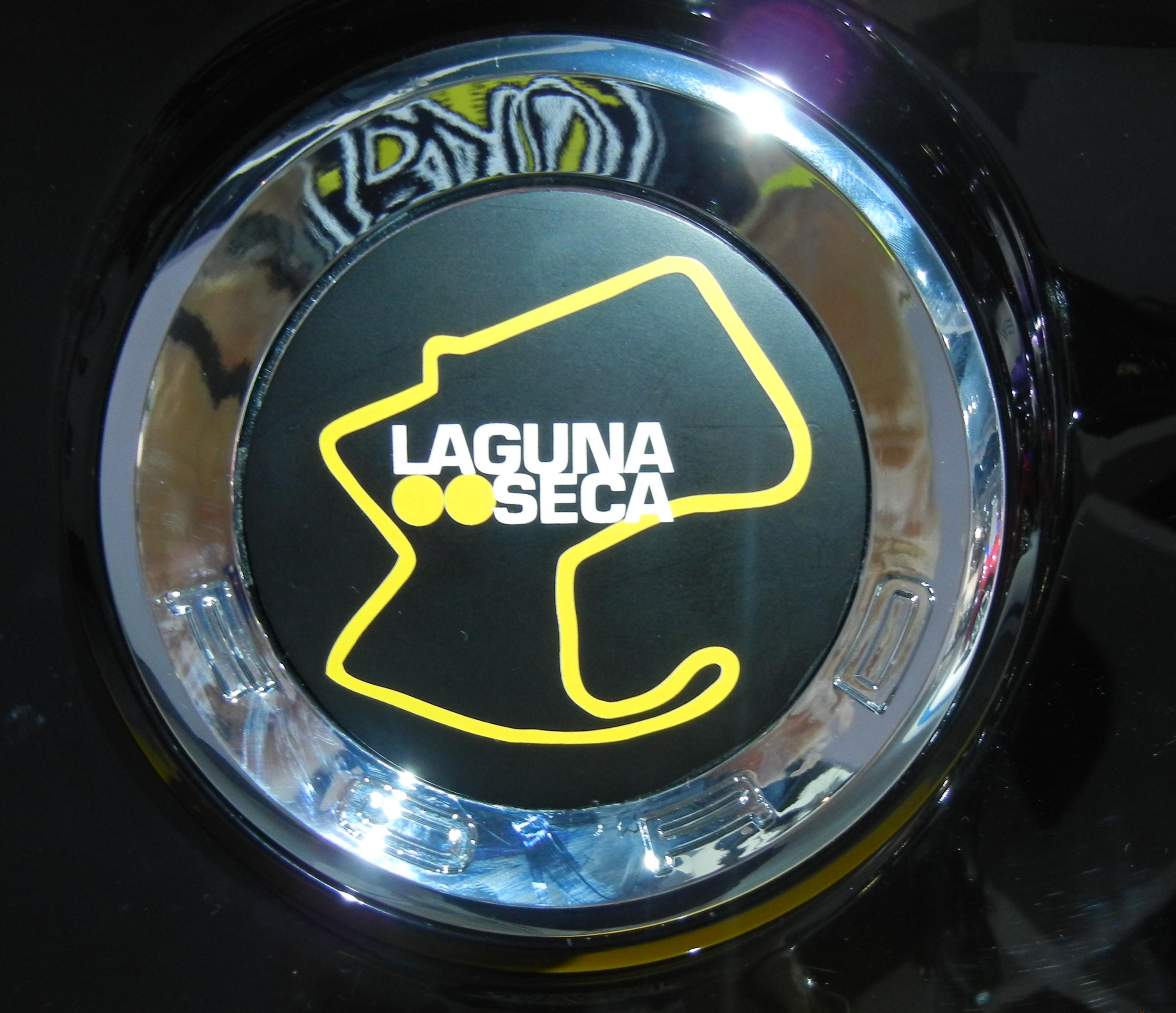 Fake gas cap on Ford Mustang Boss 302 Laguna Seca version has map of track